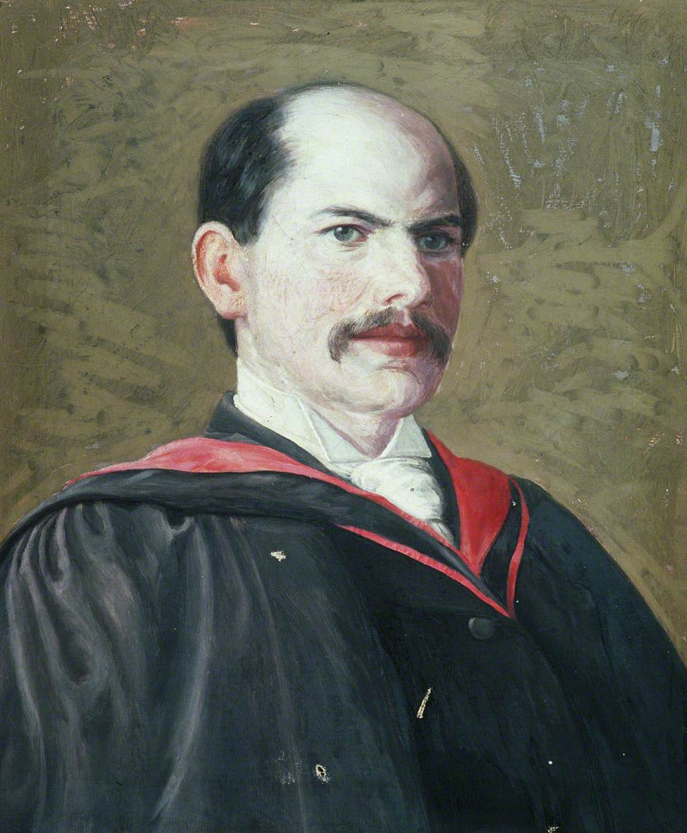 A painting from the Framed Works of Art collection at the National Library of wales.